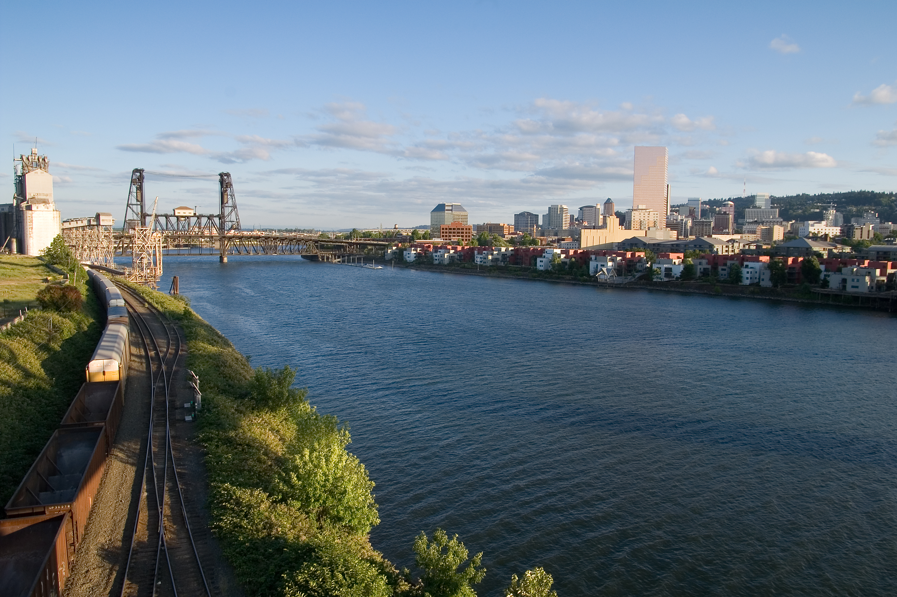 Downtown Portland, Oregon and the Steel Bridge on the Willamette River. View is looking south from the Broadway Bridge.